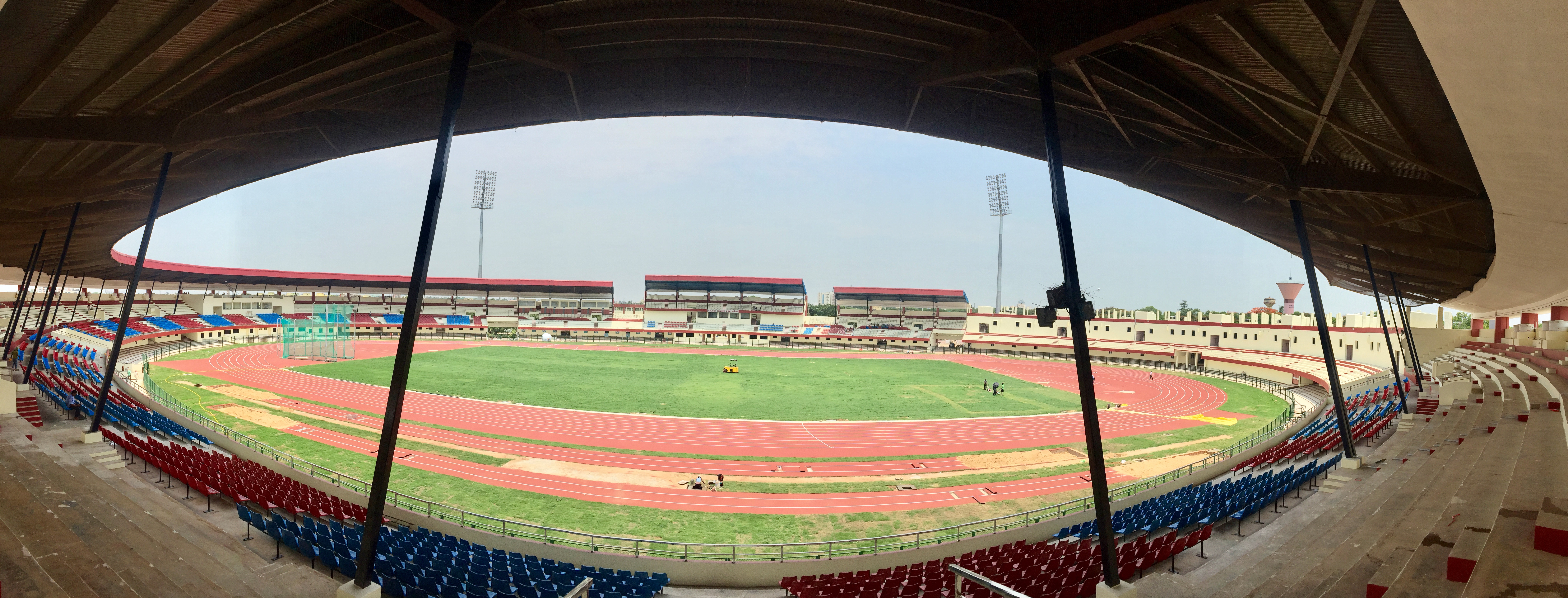 Panoramic view of the Kalinga Stadium, Bhubaneswar.